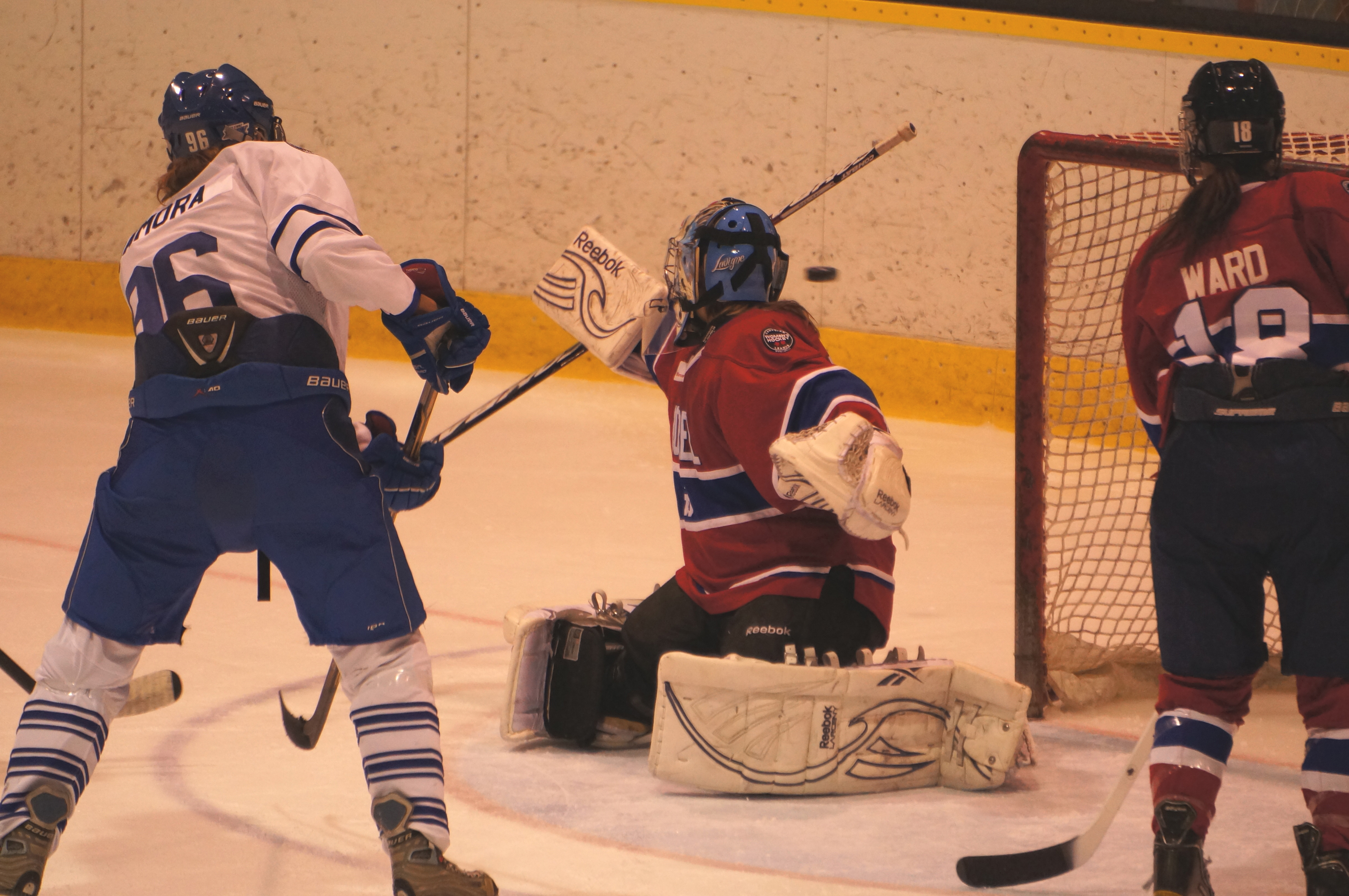 Jenny Lavigne, Montreal Stars same photo to File:Jenny Lavigne 02.jpg but now with photoshop processing